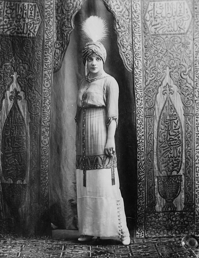 French-born American actress and singer Irène Bordoni (1895-1953) onstage